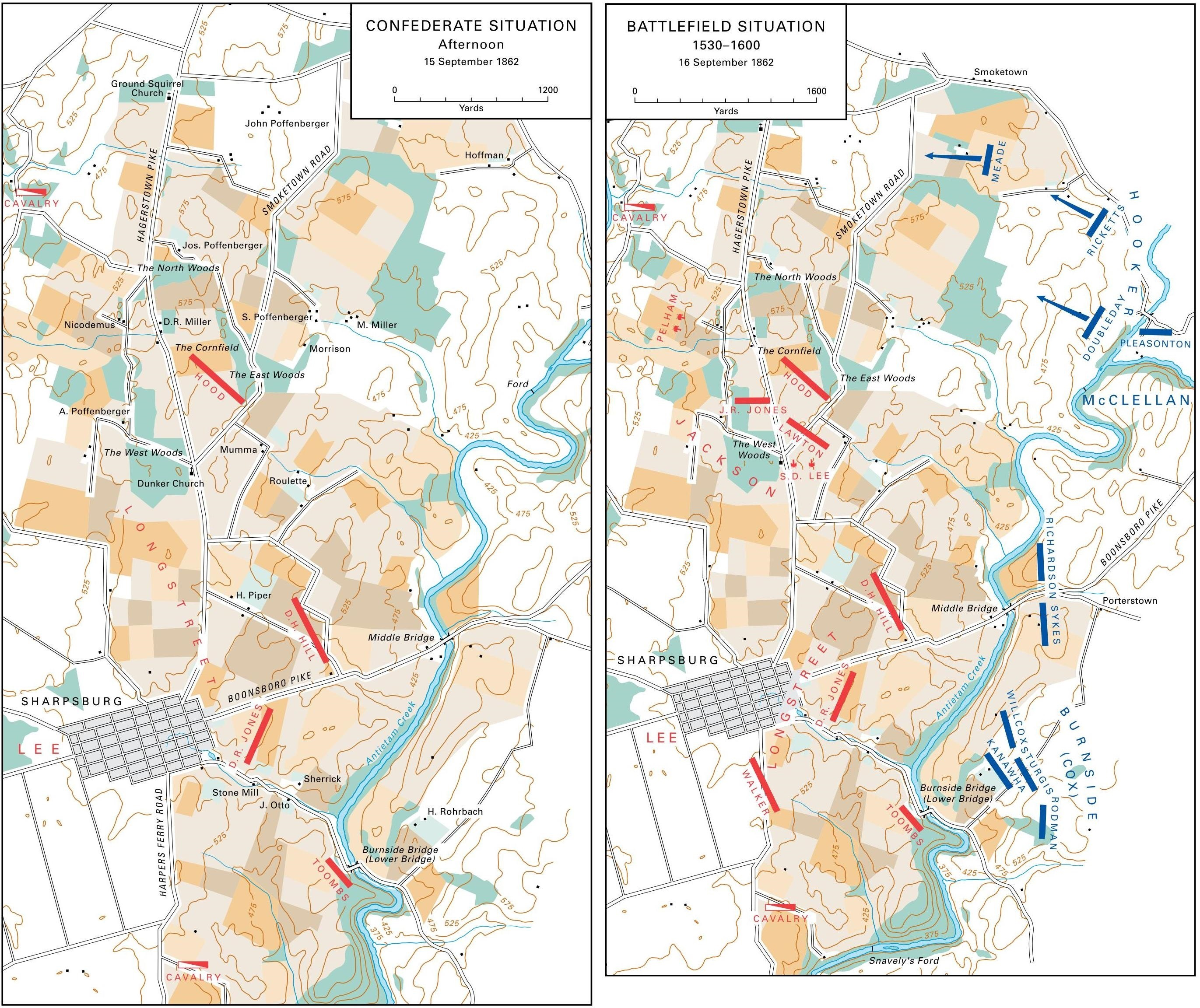 Maryland Campaign: 15-16 September 1862 (Battlefield of Antietam).